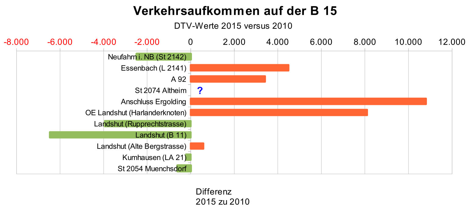 this graph shows the variation in traffic on German road B 15 in the area of Landshut counted on different measuring points in the years 2010 and 2015; the source of the measuring results is and